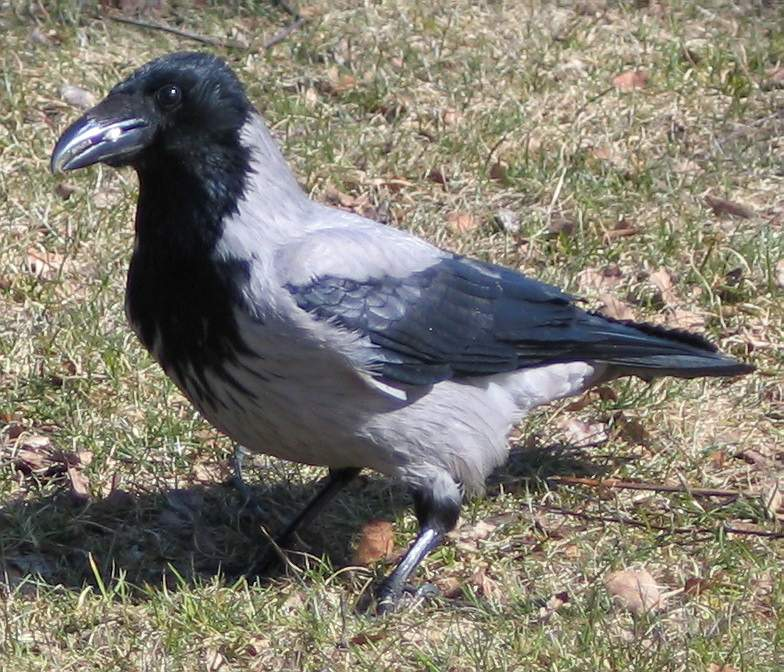 Author: soebe Date: April 13, 2004 Location: A parking lot, Svenska